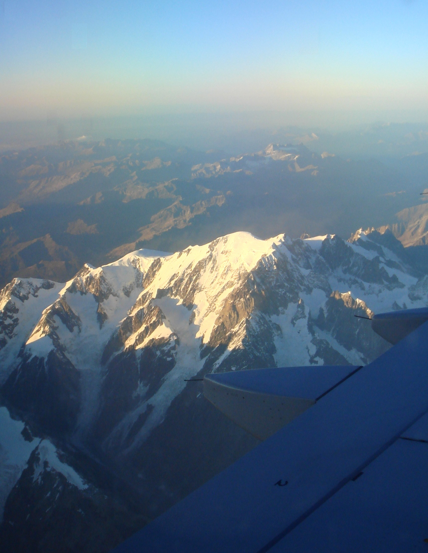 Flight over the Mont Blanc, on a Paris-Turin flight. Personal photograph 2006.